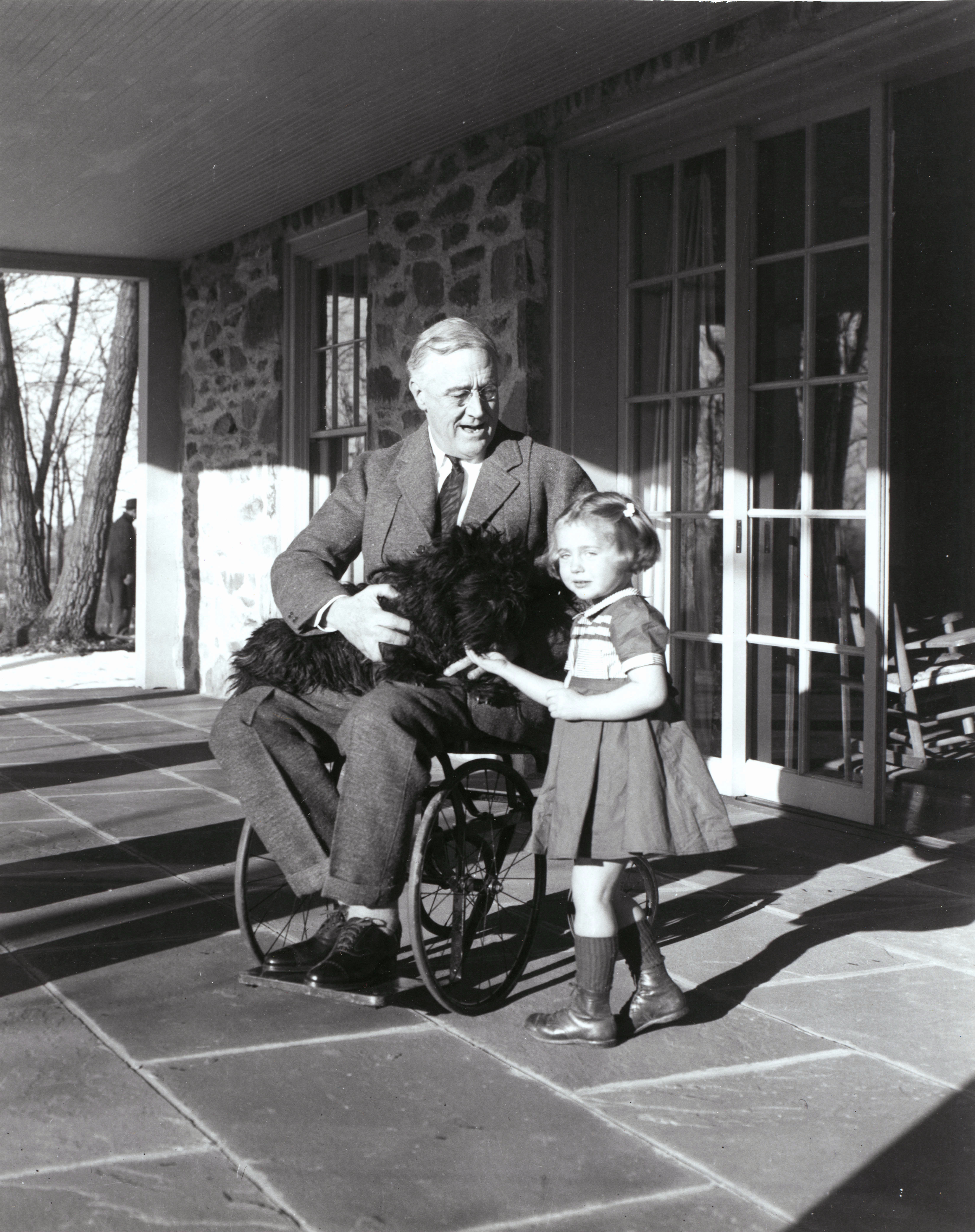 President Roosevelt in his wheelchair on the porch at Top Cottage in Hyde Park, NY with Ruthie Bie and Fala. February 1941. This photograph was taken by his friend, Margaret "Daisy" Suckley.Ruthie Bie (later Bautista), then three years old, was the daughter of the property caretakers. [1] [2] [3]